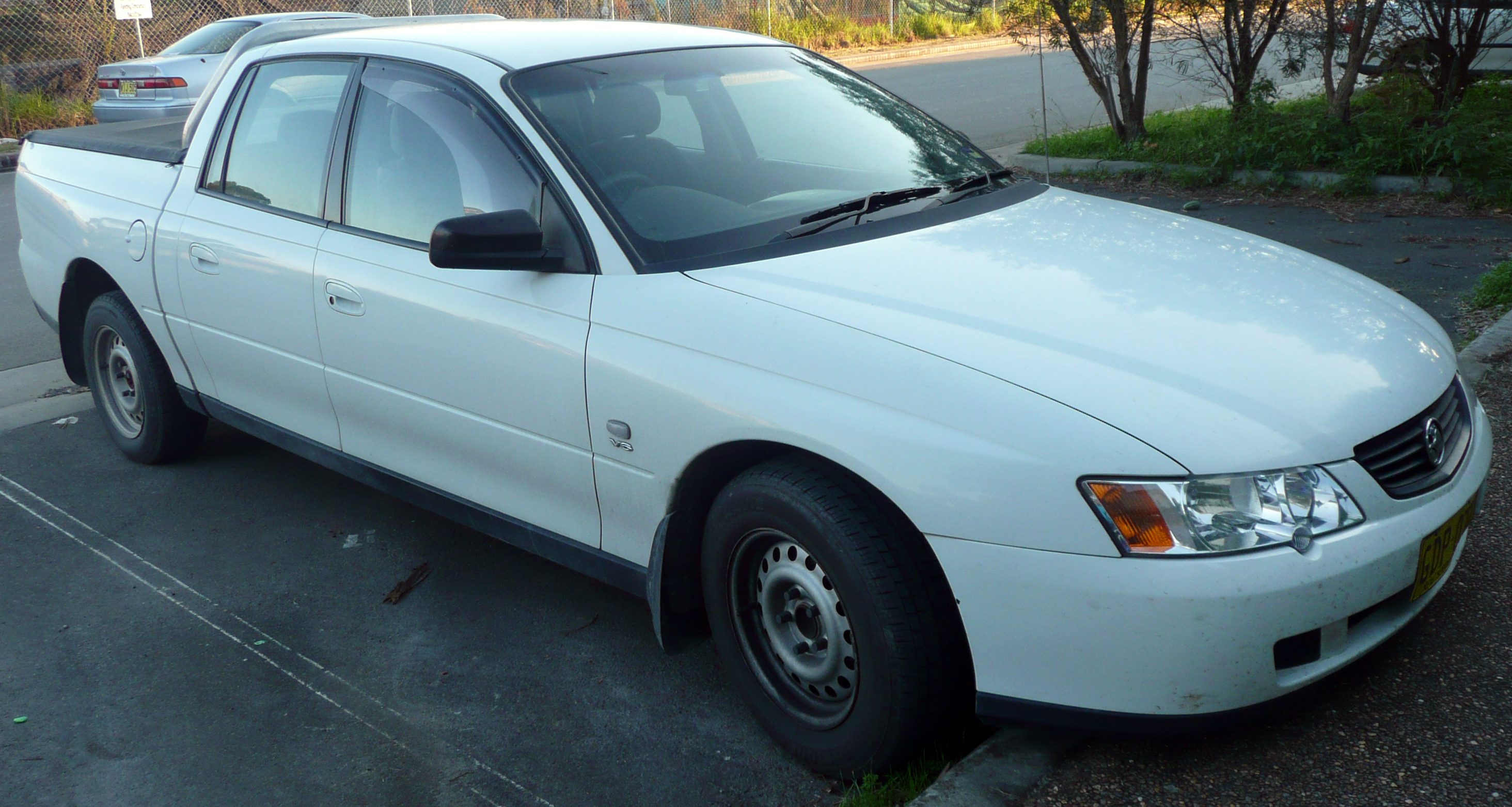 2003–2004 Holden Crewman (VY II) utility. Photographed in Sutherland, New South Wales, Australia.